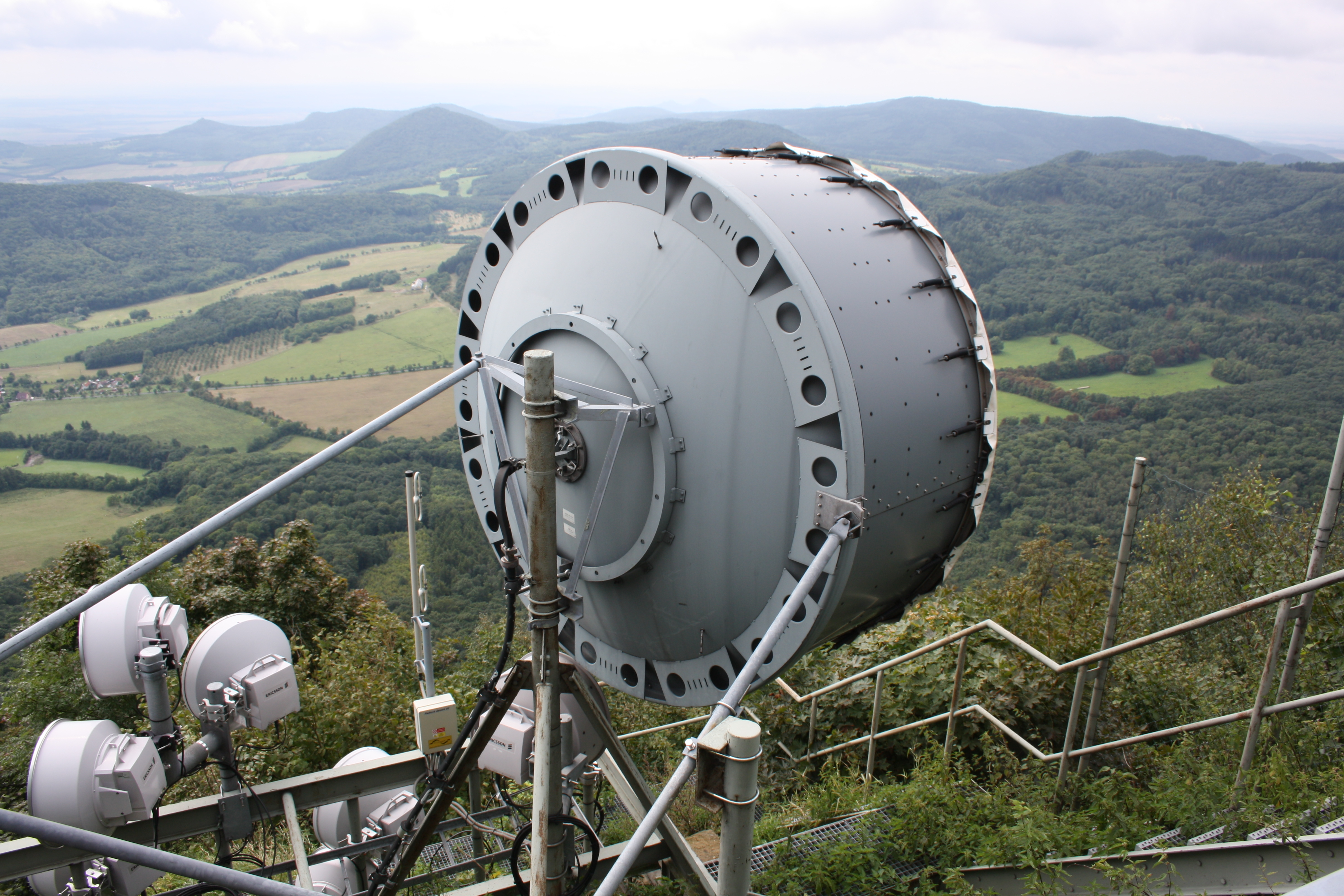 Microwave relay dish and a view of the landscape on Milešovka hill (837 m), České středohoří, Czech Republic. Microwave relay links like this relay telephone calls and television signals between nearby cities. This type of parabolic antenna is called a "shrouded dish". The cylindrical metal shroud attached to the rim of the dish shields it from interference from microwaves coming from other directions, allowing nearby dishes to use the same microwave frequencies.